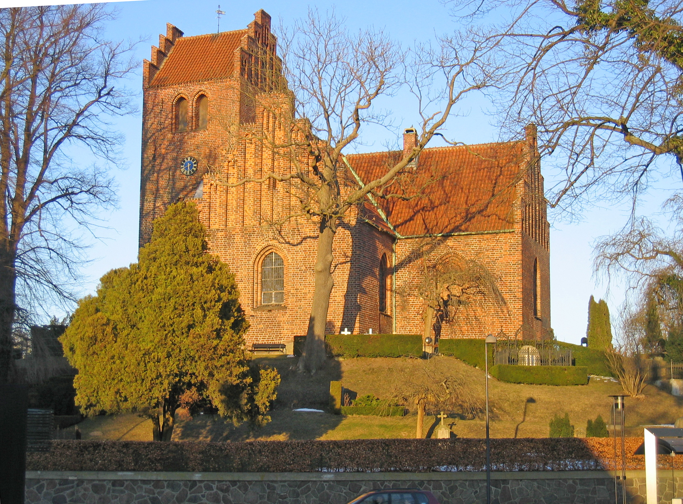 Lyngby church, Kongens Lyngby Parish, Sokkelund Herred, Copenhagen County, Denmark